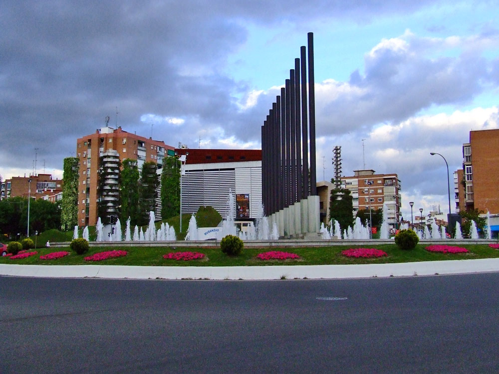 Teatro del Bosque, a theater in Móstoles, a city in the Community of Madrid (Spain).